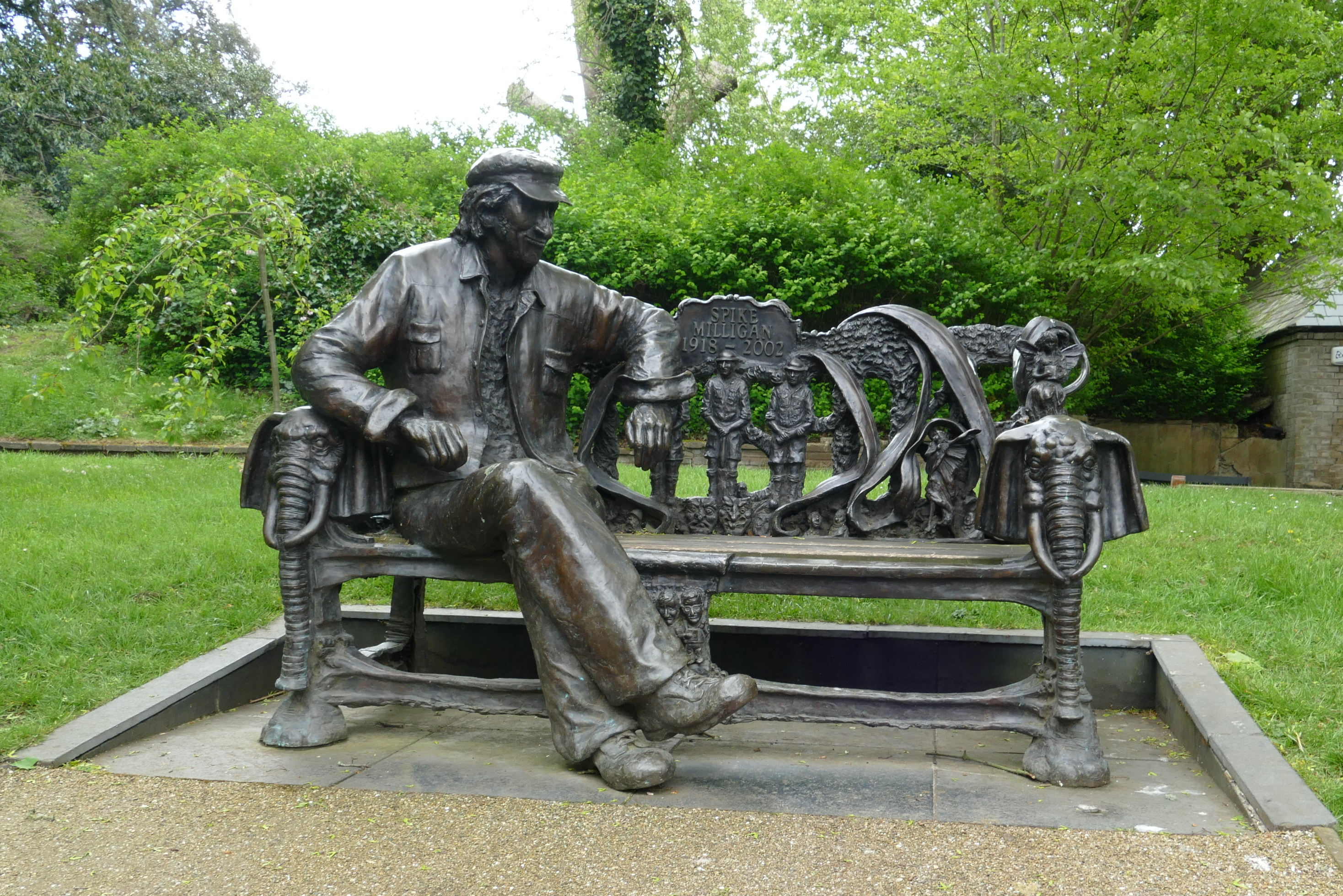 'A Conversation With Spike' by John Somerville, Stephens House and Gardens, Finchley